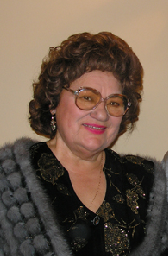 Photo of Moldavian opera singer Maria Bieshu